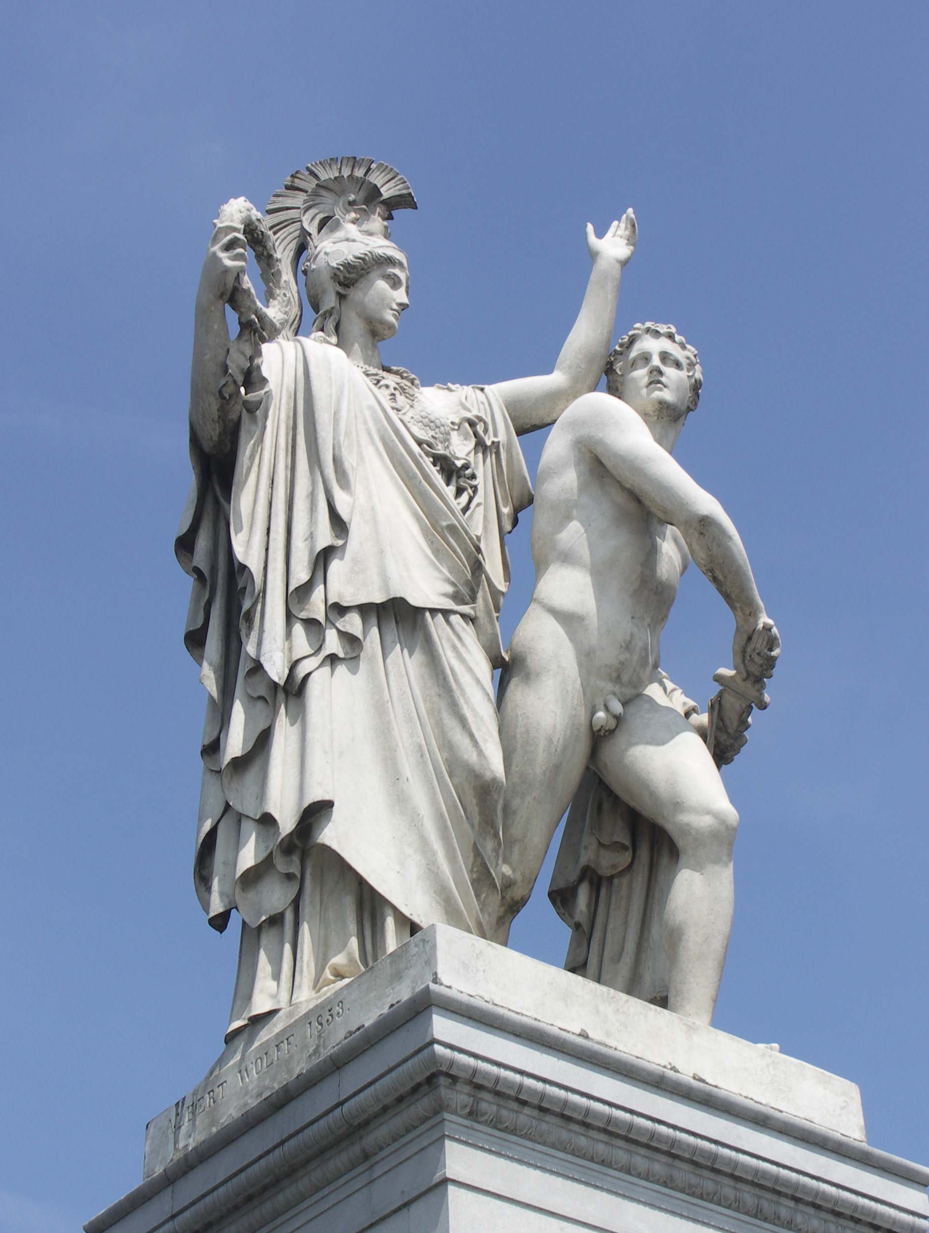 Sculpture of Athena counseling Diomedes shortly before he enters the battle, sculpted by Albert Wolff, 1853 - Schlossbrücke in central Berlin.